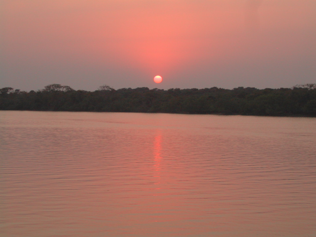 Sunset as captured from a boat in the lake in Bhitarkanika bird Sanctuary, India